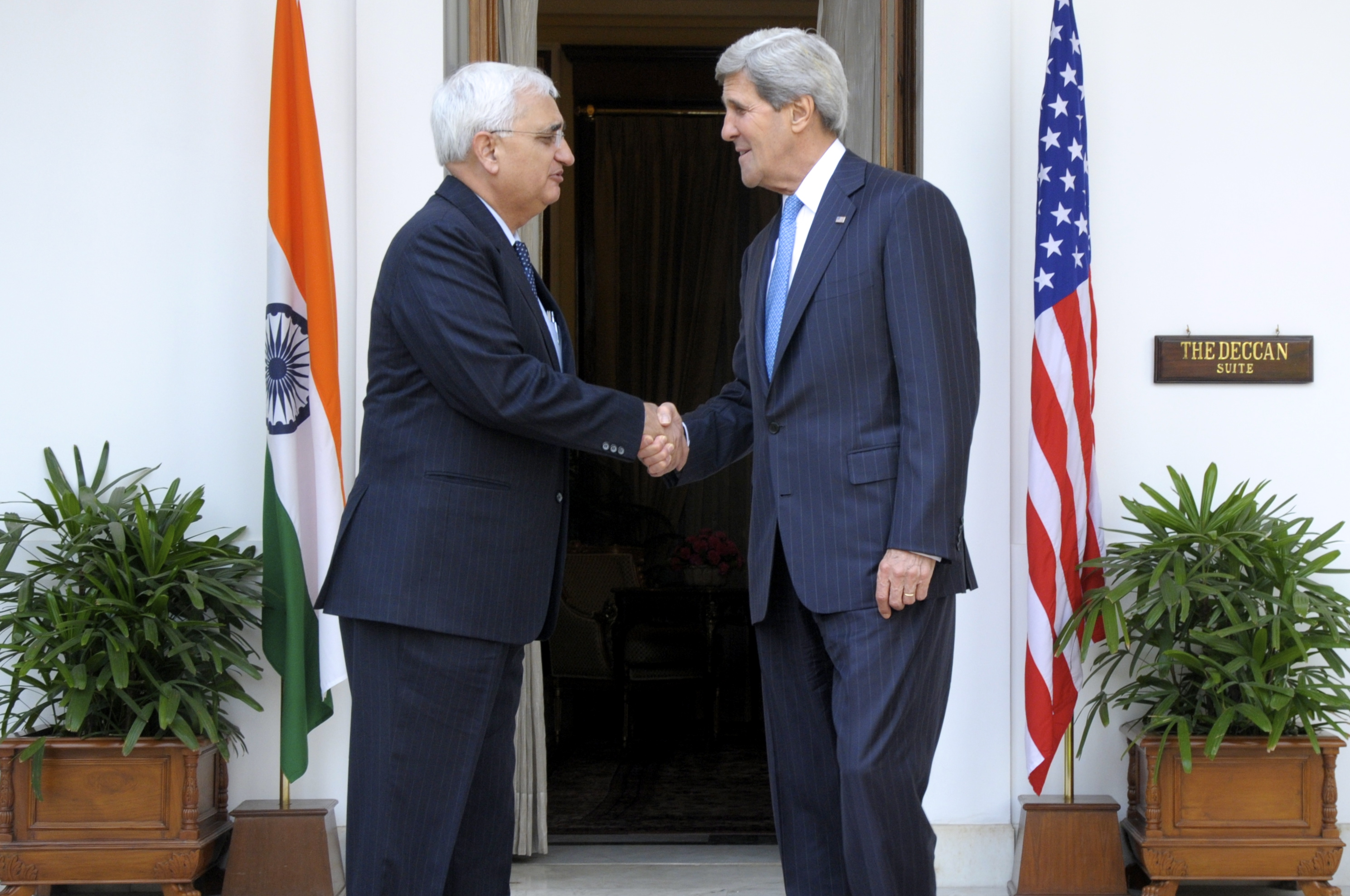 U.S. Secretary of State John Kerry shakes hands with Indian External Affairs Minister Salman Khurshid before the U.S.-India Strategic Dialogue in New Delhi, India on June 24, 2013. [State Department photo/ Public Domain]